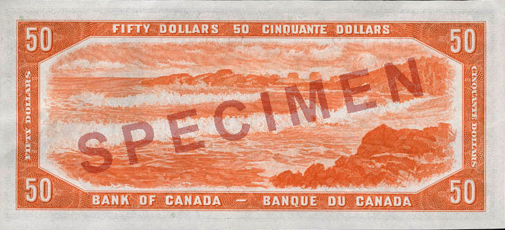 Canada 1954 Series $50 banknote, reverse, original "Devil's Head" printing. Image depicts a seascape scene based on a photograph of Crescent Beach in Lockeport, Nova Scotia, and was engraved by Warrell Alfred Hauk.